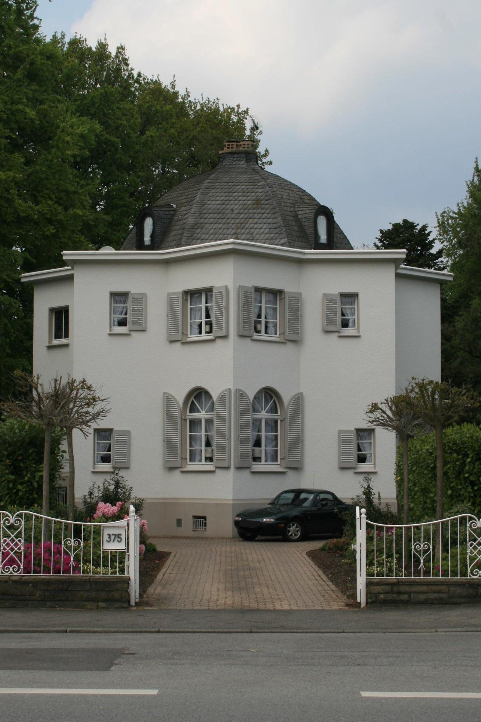 Cultural heritage monument No. G 050 in Mönchengladbach